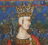 Charles I of Naples